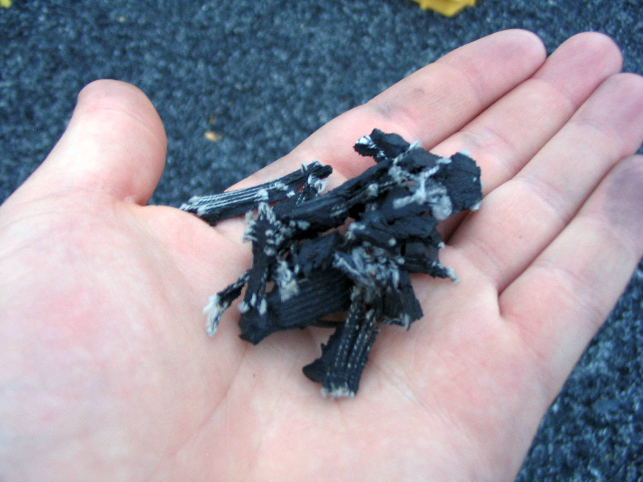 Rubber mulch nuggets; the white fibers are nylon cords, which are present in the tires which the mulch is made from. Photo taken in Port Alsworth, Alaska.